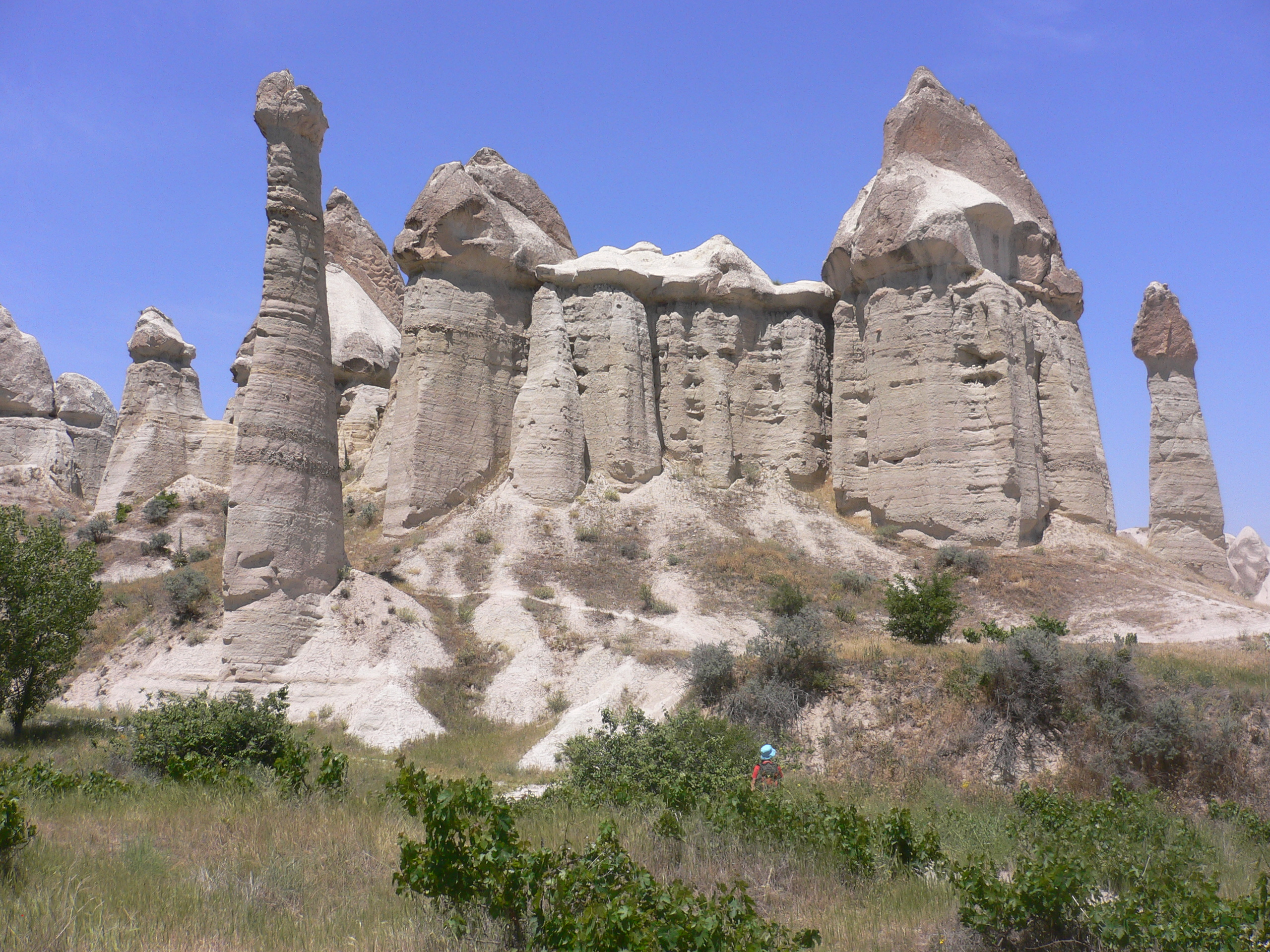 fairy chimneys in Cappadocia